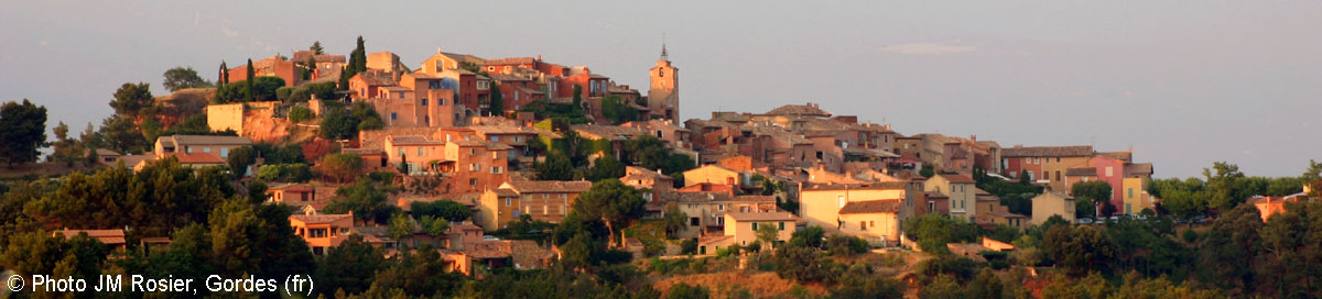 Picture of the village of Roussillon, France